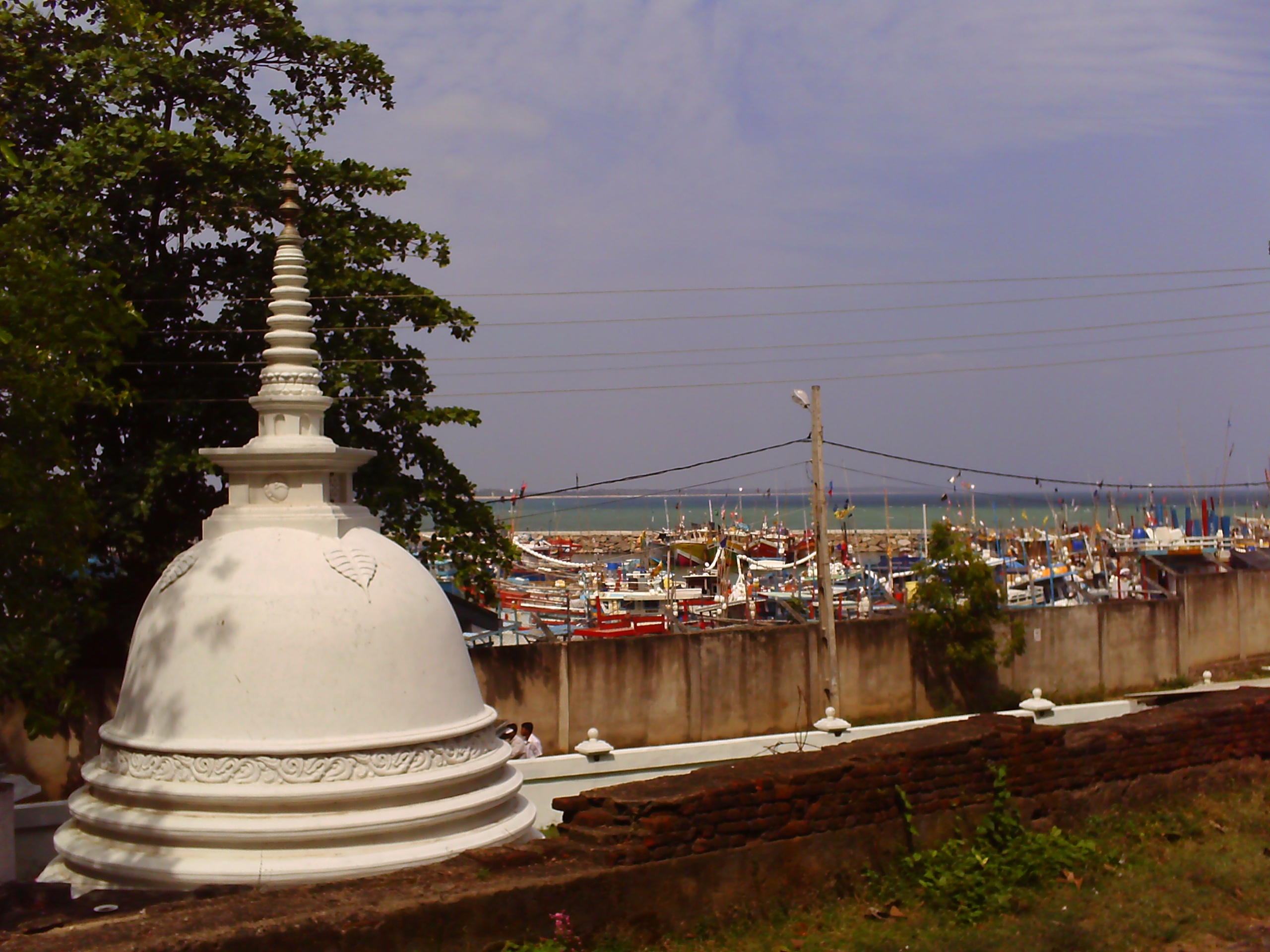 View of the harbour of Tangalle, Sri Lanka.